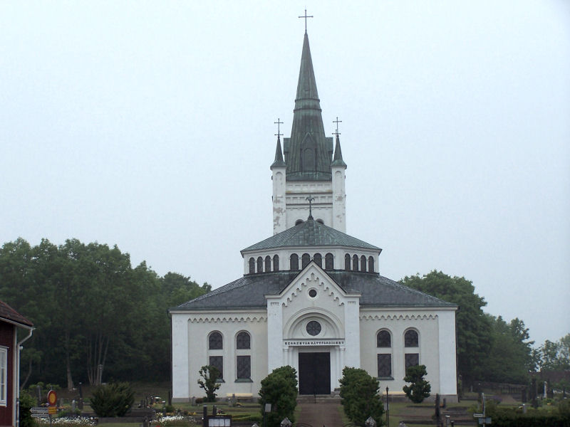 Hällaryd church, Hällaryd parish.